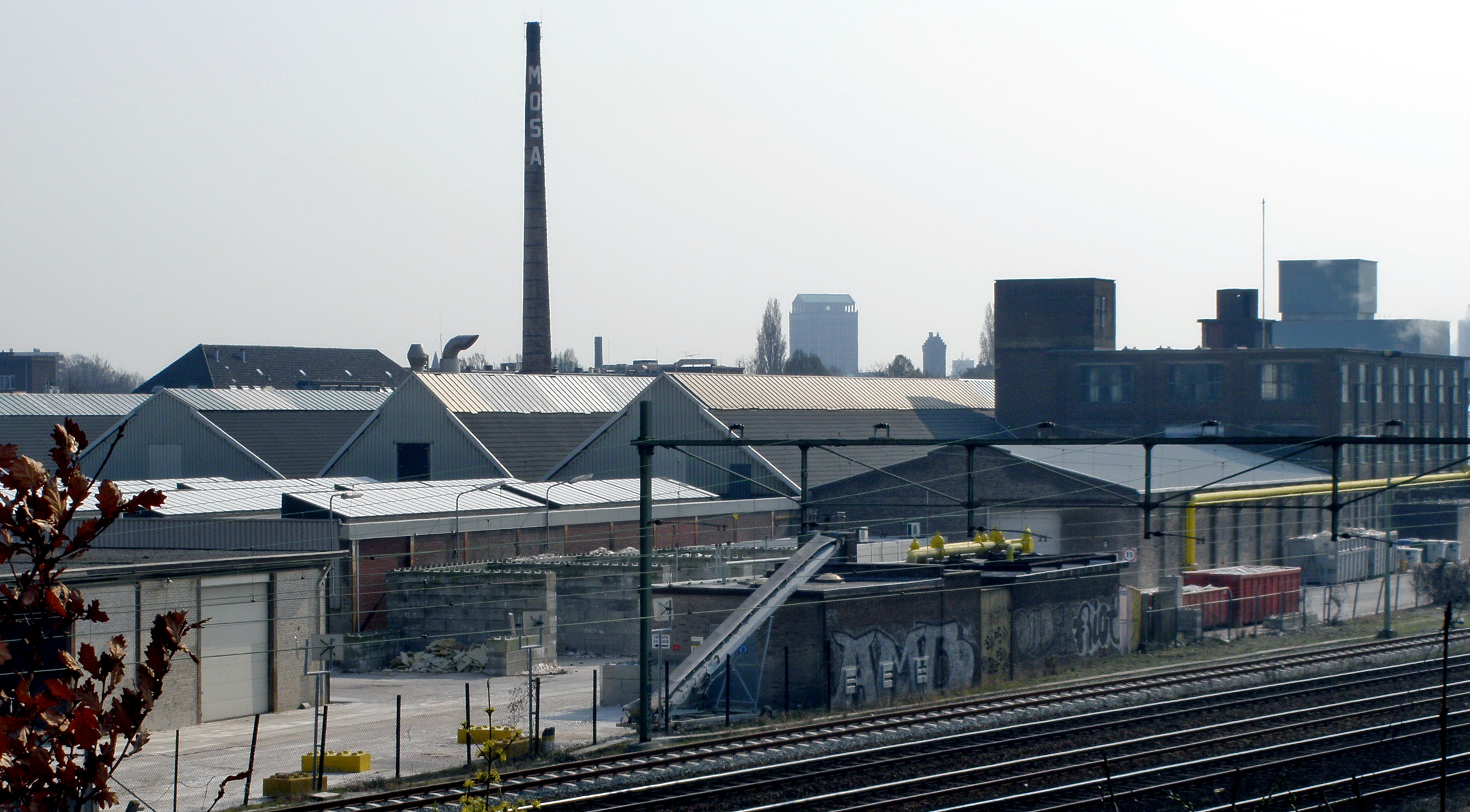 Maastricht, the Netherlands. View from Viaductweg of industrial landscape with railway and Koninklijke Mosa factories.